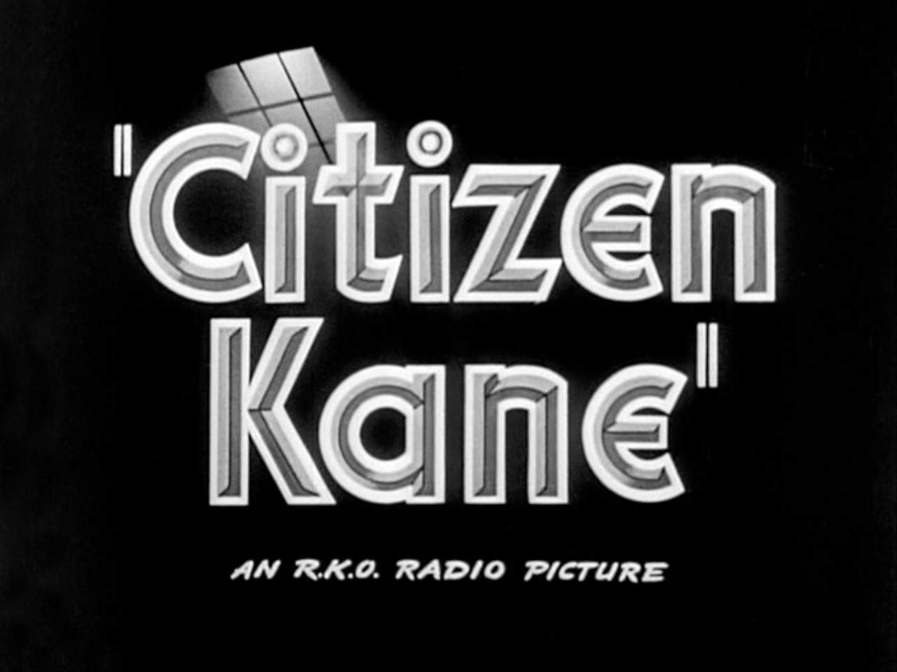 Screenshot of the intertitle from the Citizen Kane trailer